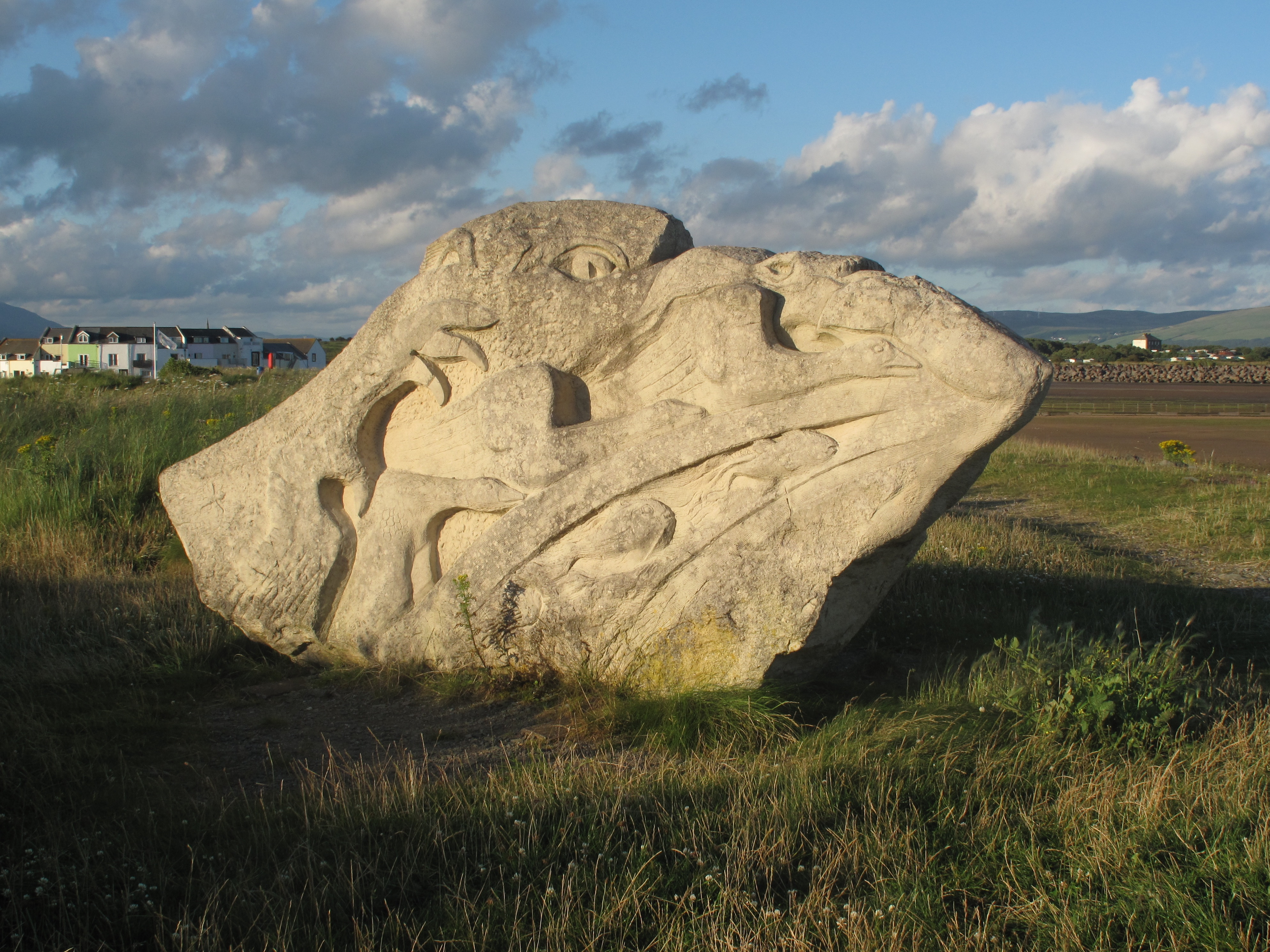 This Josefina de Vasconcellos carving overlooks the Duddon Estuary at Haverigg, Cumbria, UK